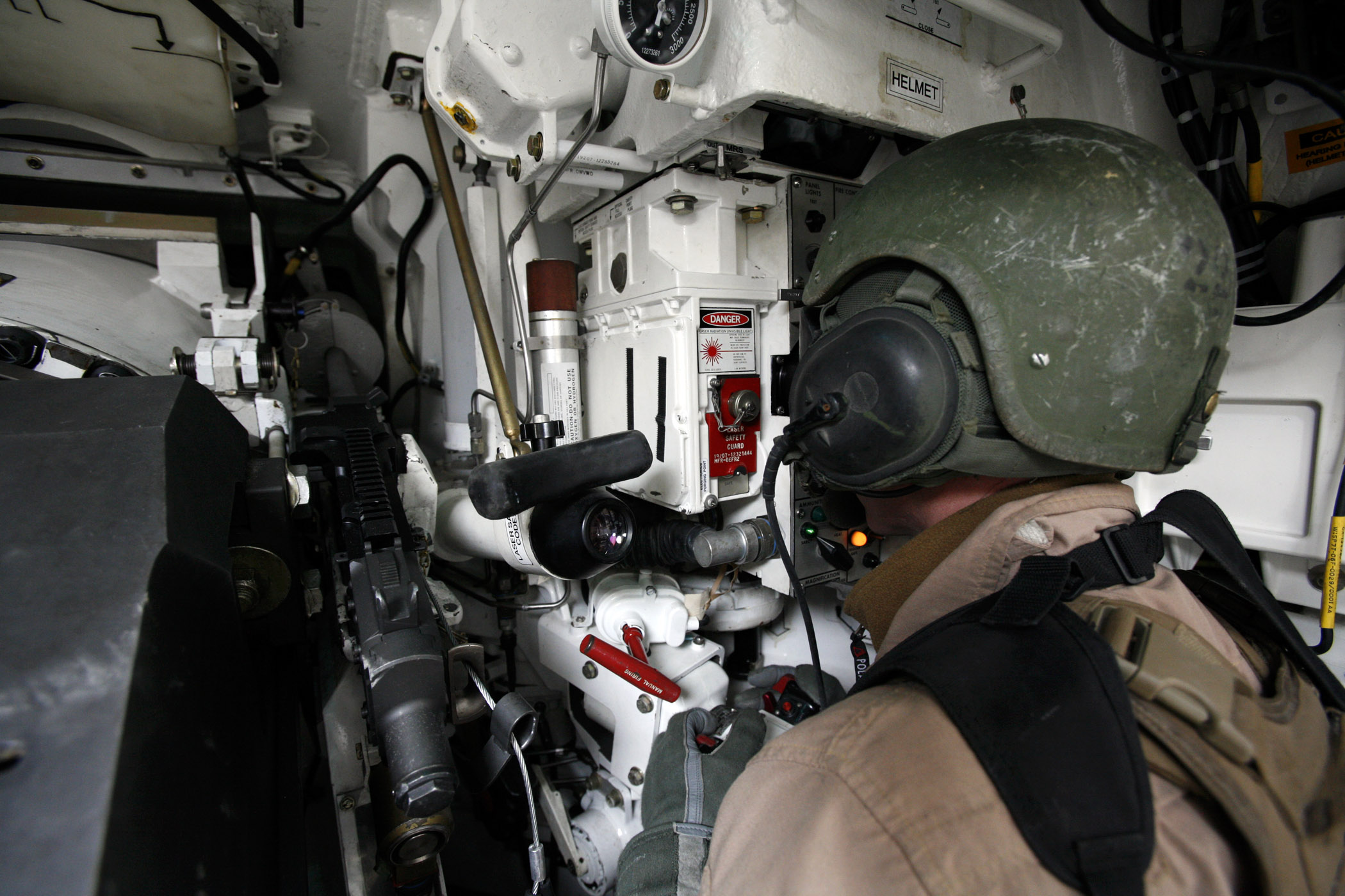 MARINE CORPS BASE CAMP LEJEUNE, N.C. – Lance Cpl. Thomas Watt, a gunner with 2nd Tank Battalion, 2nd Marine Division, positions the M1A1 Abram Main Battle Tank’s main gun on target. Gunner uses three main sights to accurately fire the main cannon: the gunner’s primary sight (GPS), a night vision Thermal Imaging System (TIS), which creates an image based on the difference of heat radiated by objects in the field-of-view, and the gunner’s auxiliary sight (GAS), a fixed sight used as a contingency. (Official U.S. Marine Corps photo by Cpl. Scott Schmidt) (RELEASED)